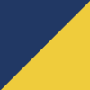 Gold and Blue